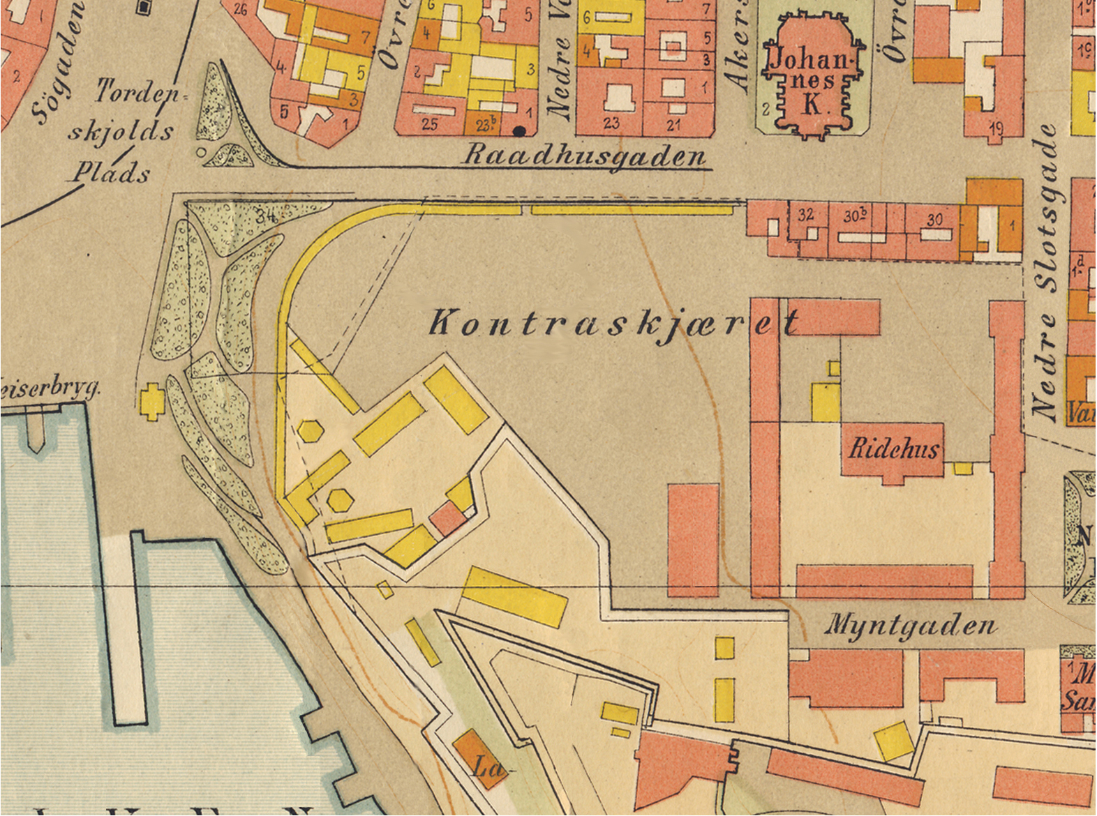 Detail of Oslo map 1902, showing the esplanade Kontraskjæret on the north side of Akershus fortress.